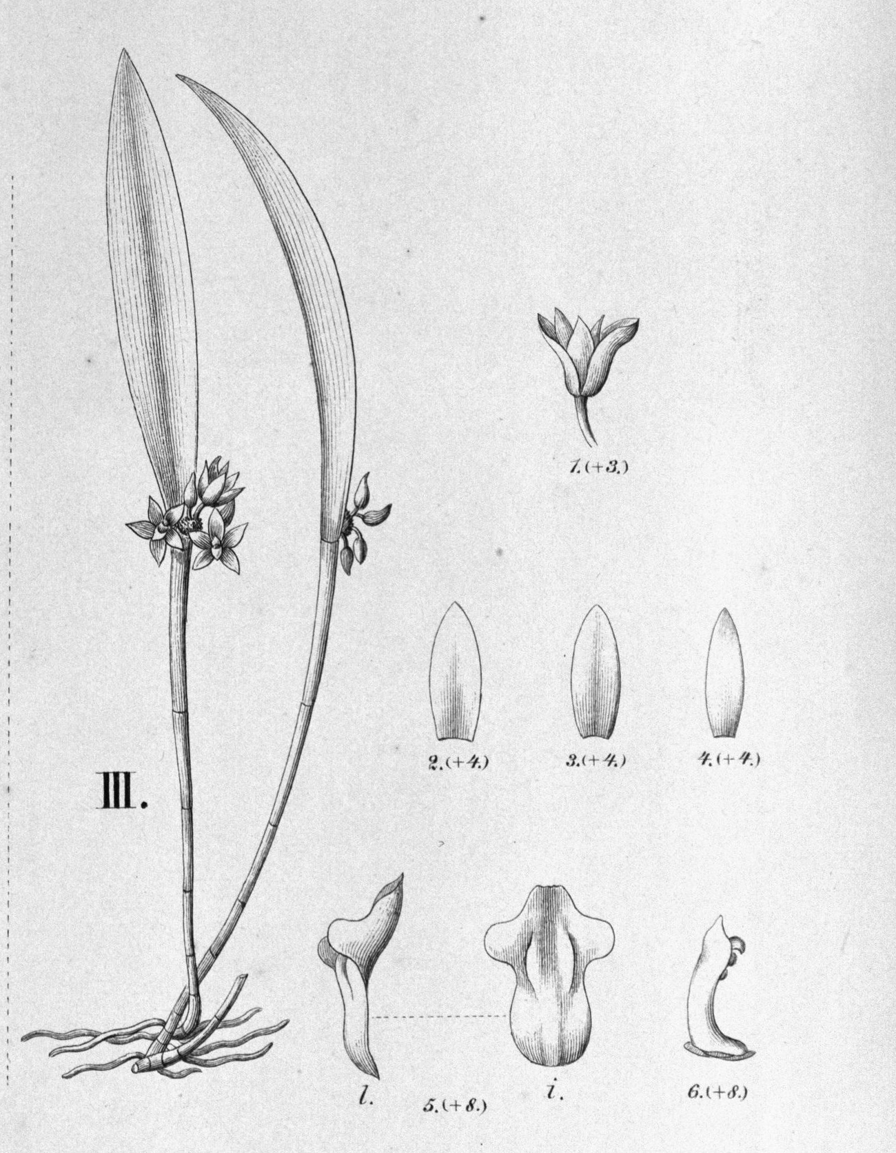 Illustration of Octomeria concolor